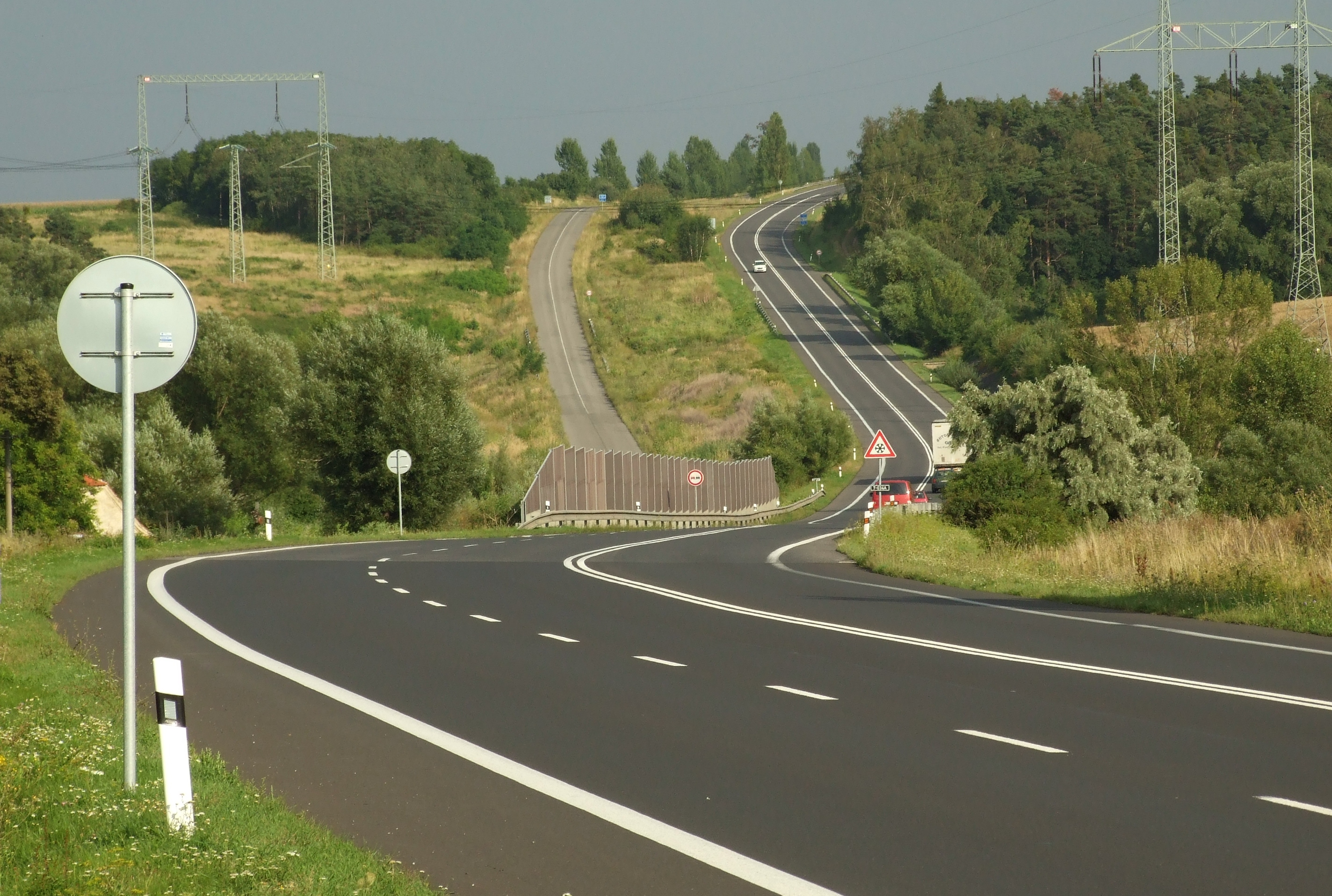 Expressway R7 (only one half of the road was built) near Panenský Týnec, Ústí nad Labem Region, CZ